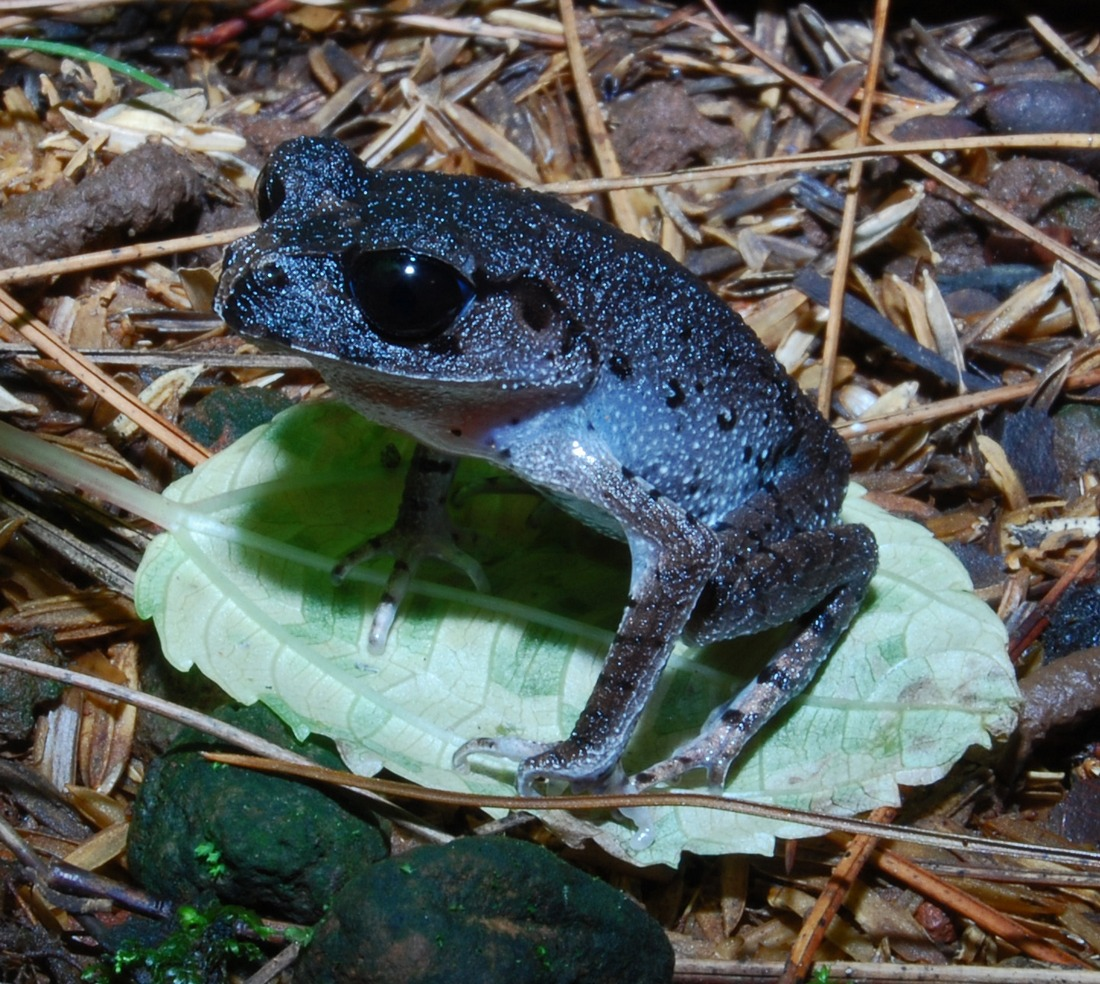 Leptobrachium hasseltii, male, from Ciapus leutik river, Calobak, Bogor, West Java, Indonesia